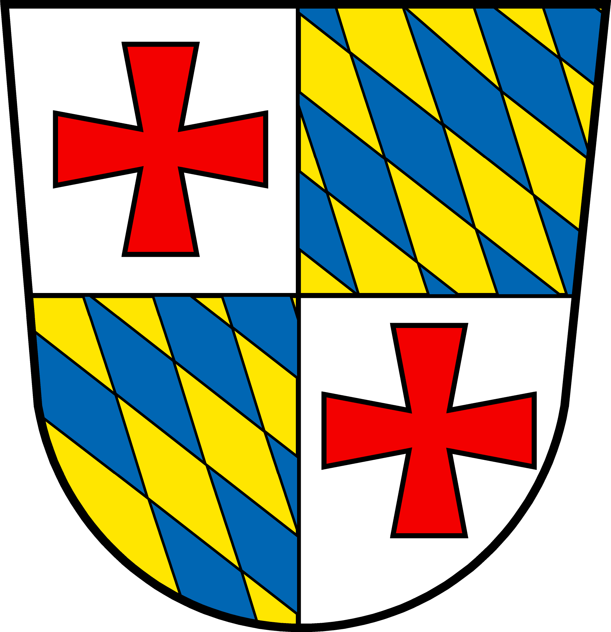 Coat of arms of the County of Königsegg-Rothenfels. Blazon: Quarterly argent and or; in the 1st and 3rd a cross patée gules; in the 2nd and 4th lozengy bendy azure.